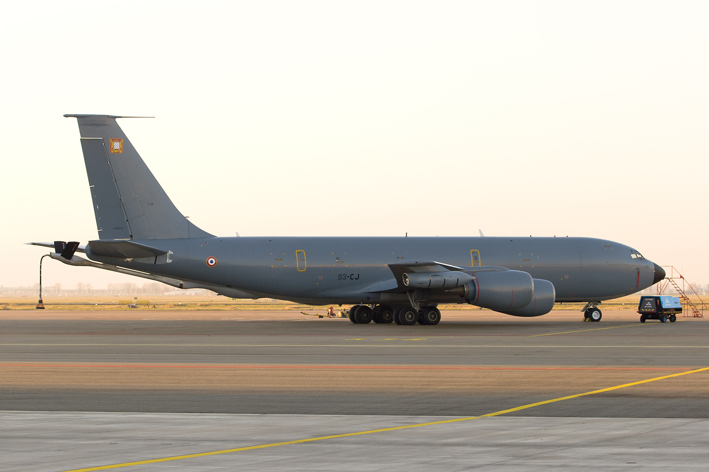 An very unusual guest at Schiphol, 16 December 2007. At the end of the afternoon, with back light. All 14 French tankers are based at Istres with GRV 02.091.